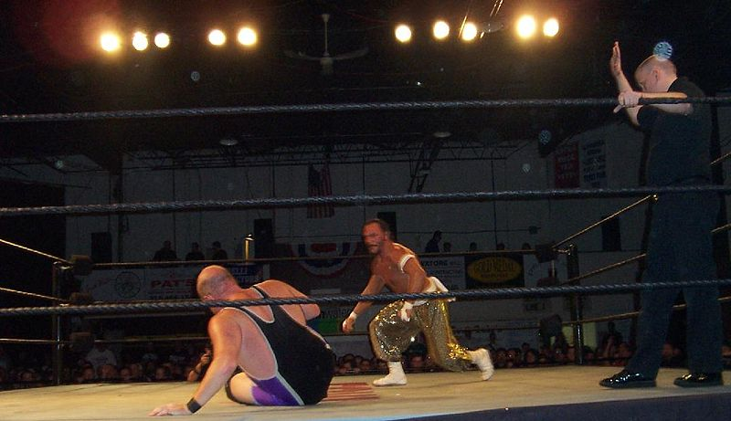 I took this picture. June 2006